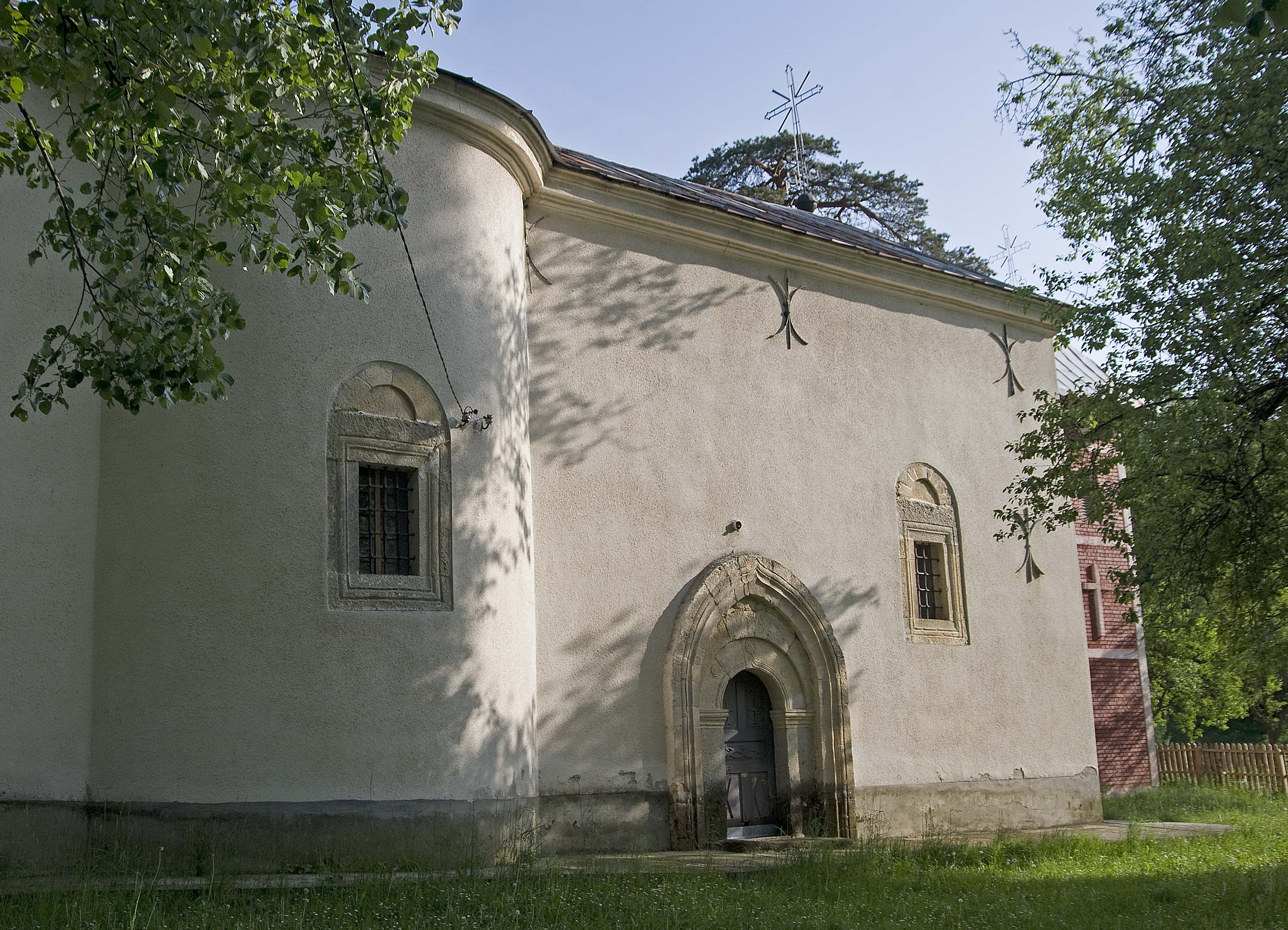 north side of Brezna church, Gornji Milanovac municipality, Serbia